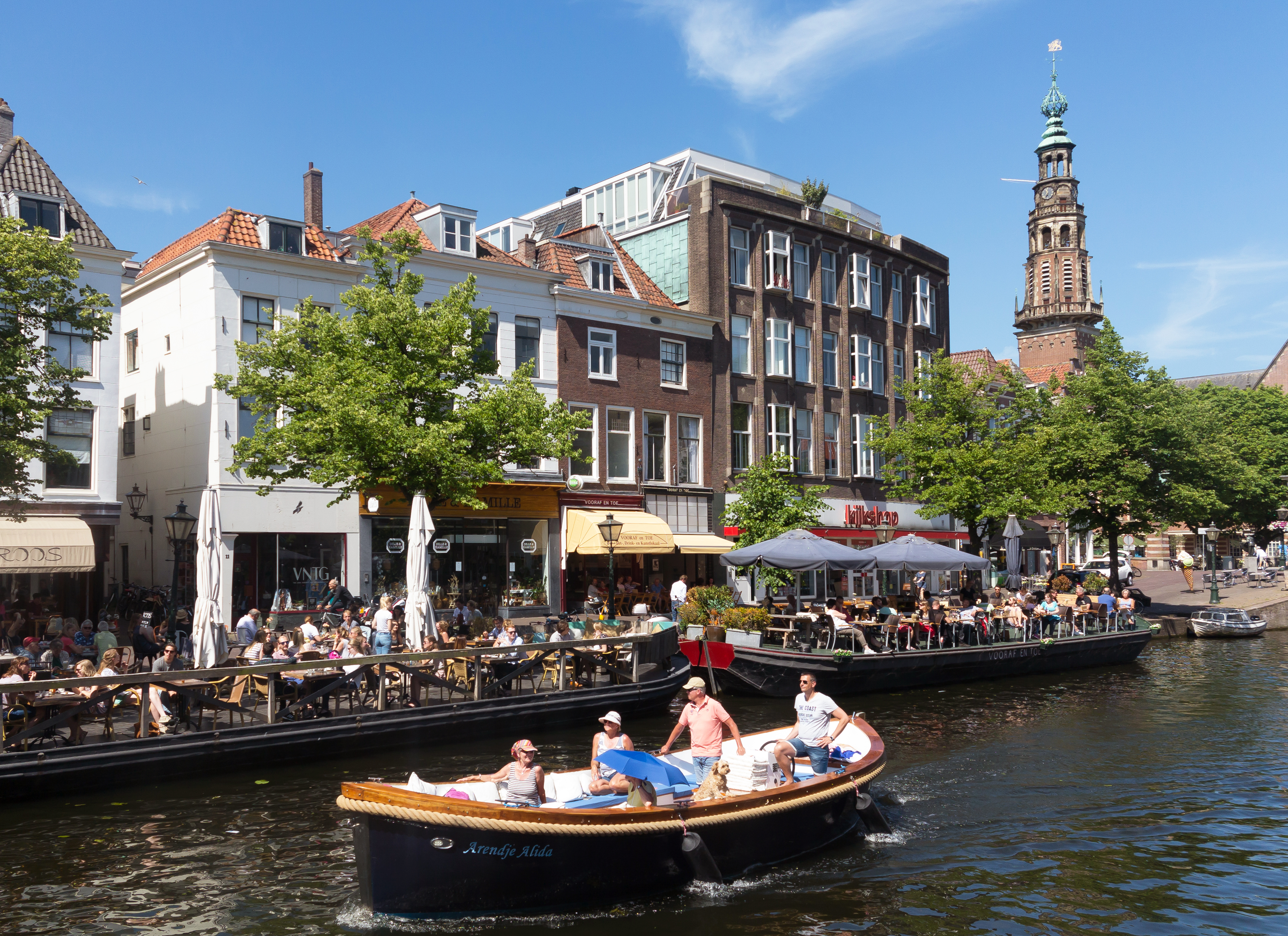 Leiden, town hall and pub boat at the Nieuwe Rijn